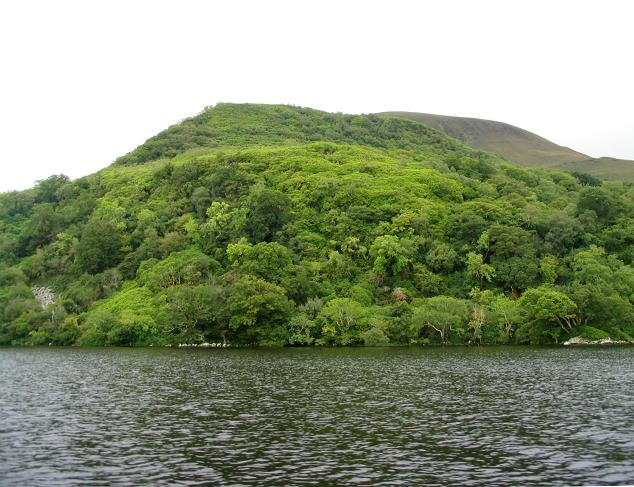 Headland in Lough Leane, Killarney The mountain in the distance is "Tomies Mountain". The photo was taken from a neighbouring grid square, in Lough Leane.